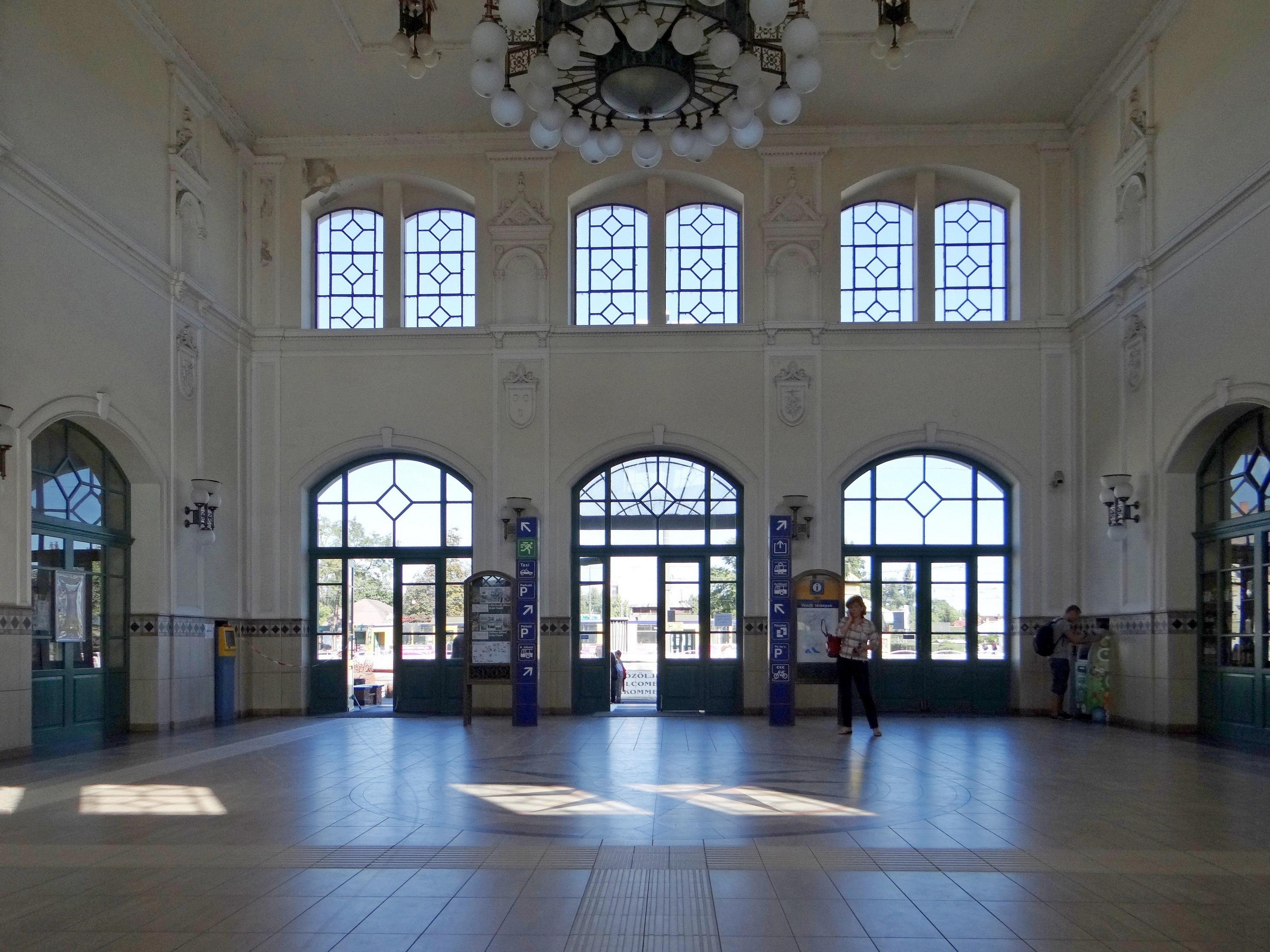 Tiszai railway station, Miskolc, Hungary This is a photo of a monument in Hungary. Identifier: 2951